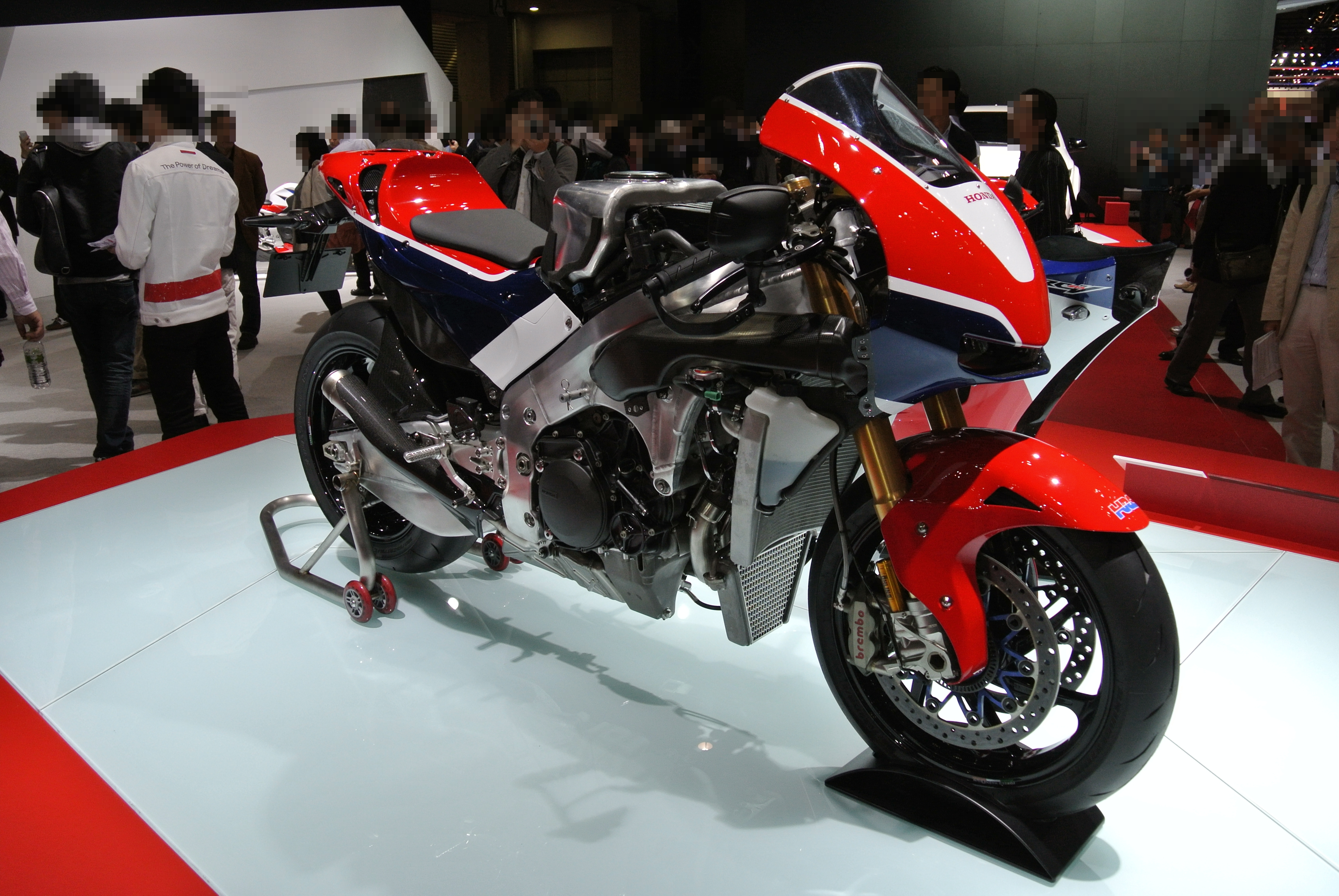 2015 Honda RC213V-S at the Tokyo Motor Show 2015.